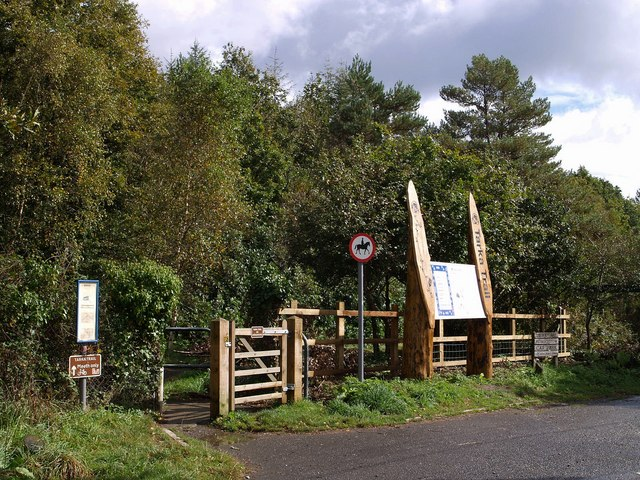 Tarka Trail notices, Petrockstowe station, near to Petrockstowe, Devon, Great Britain. A small car park to the right makes this a spot for starting walks or cycle rides along the trail, which here follows the line of the North Devon and Cornwall Junction Light Railway. Going through the gate on the left and turning right will take you past the site of the former station and on through woodland towards Meeth. The wood in the background is Heathmoor Plantation.